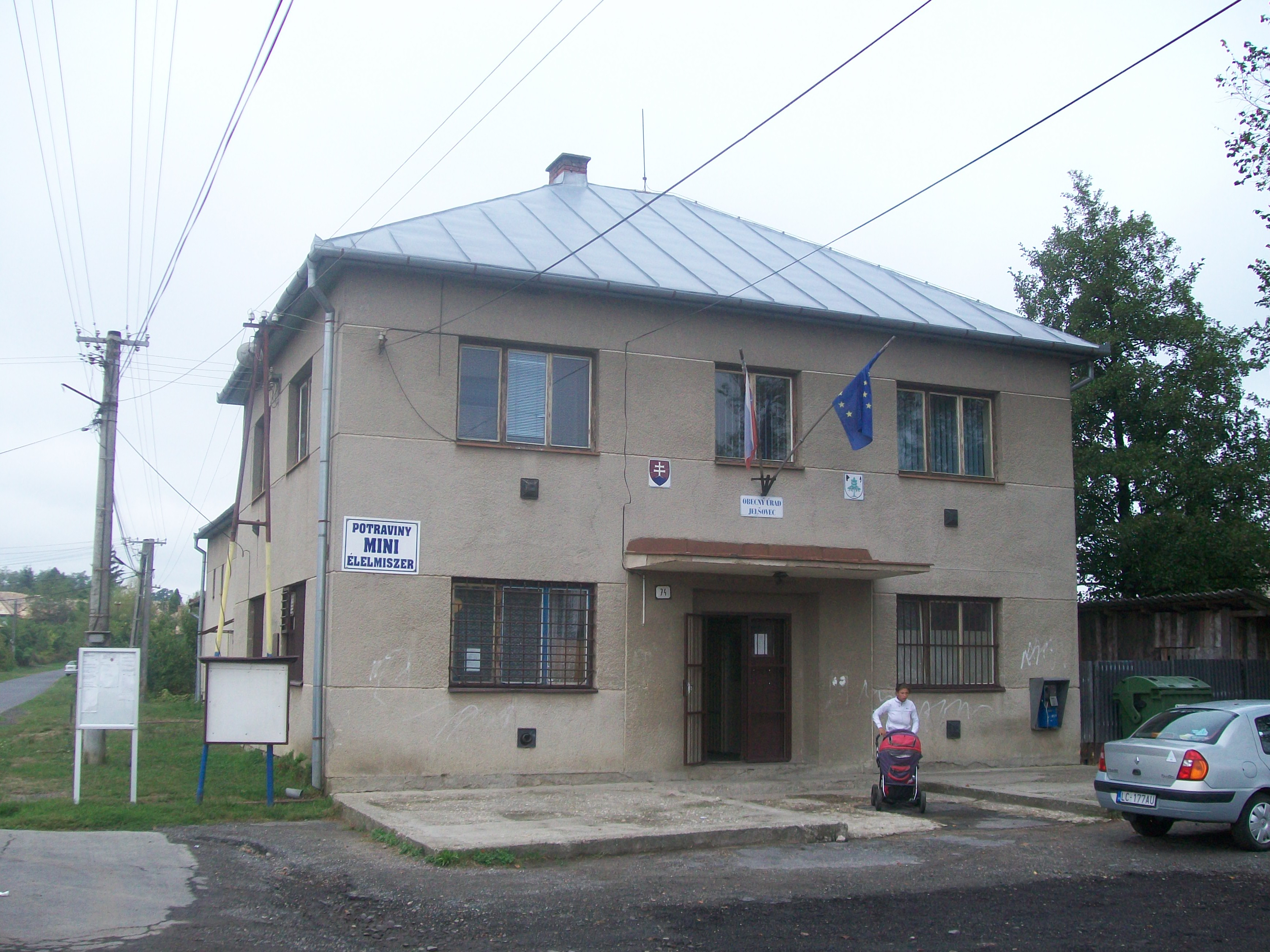 Municipal office in the village JelšovecSlovenčina: Obecný úrad v obci Jelšovec